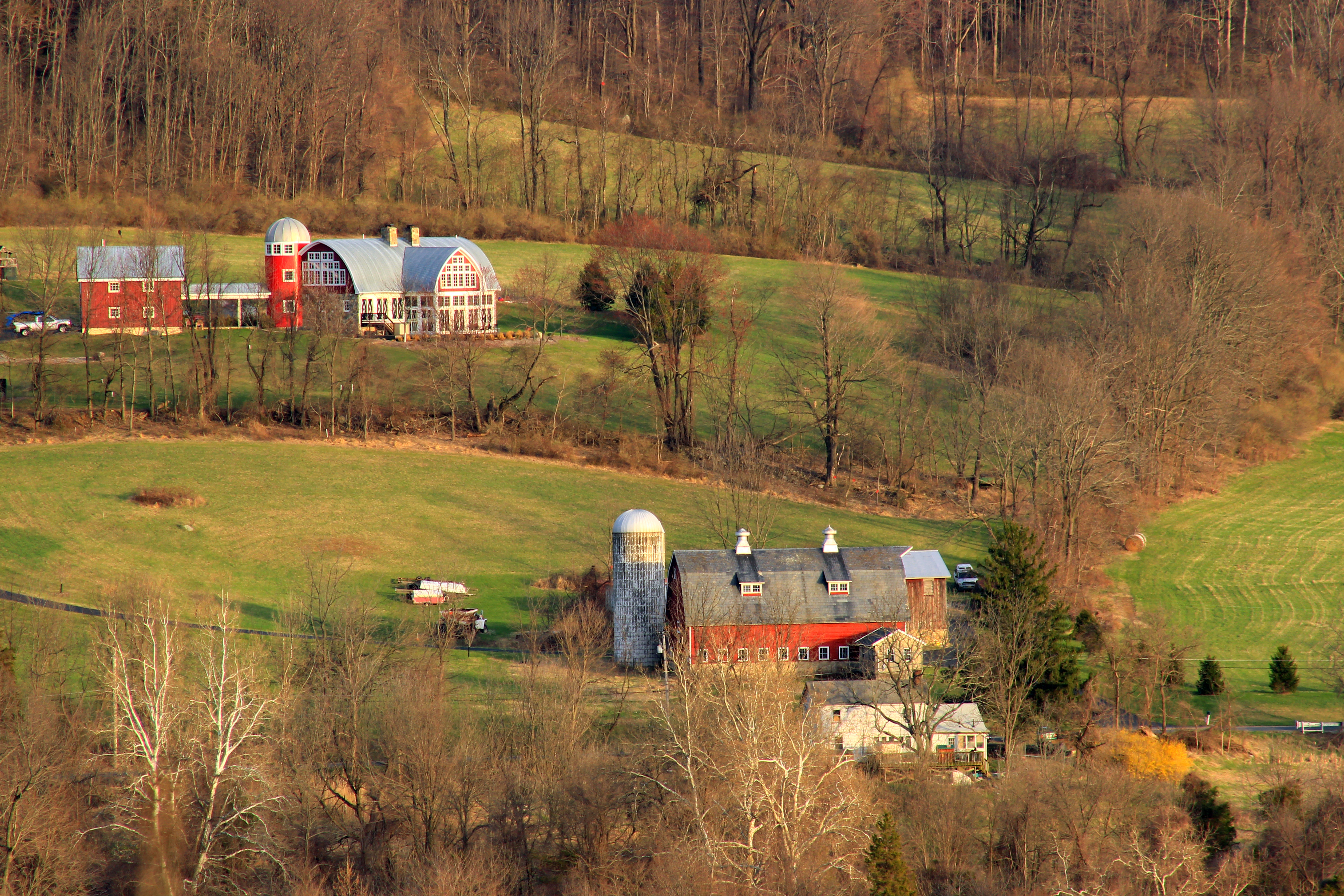 Farm in Independence Township, Warren County, New Jersey